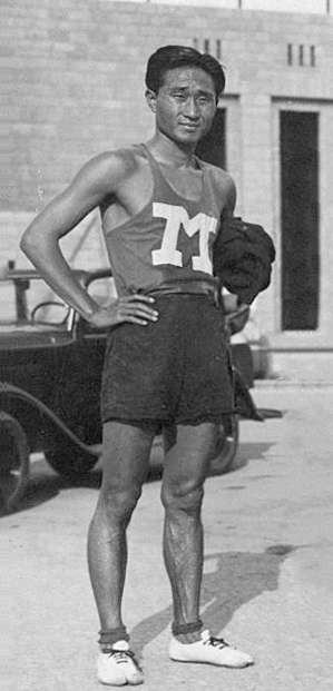 Shoryu Nan or Nam Sung-yong after a training ahead of the Berlin Olympic on June 19, 1936 in Berlin, Germany